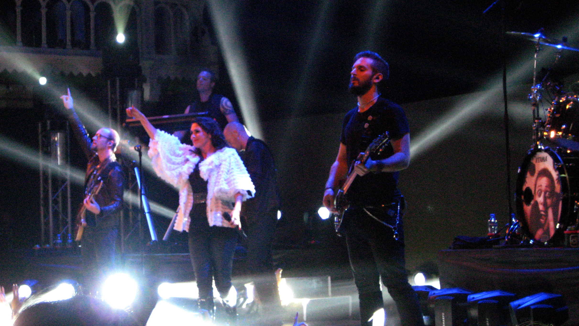 Within Temptation, 2011